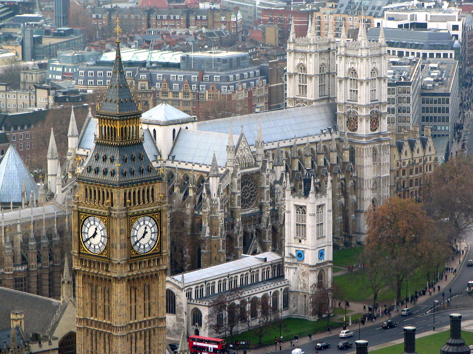 Westminster Abbey and Big Ben in London, seen from the London Eye.